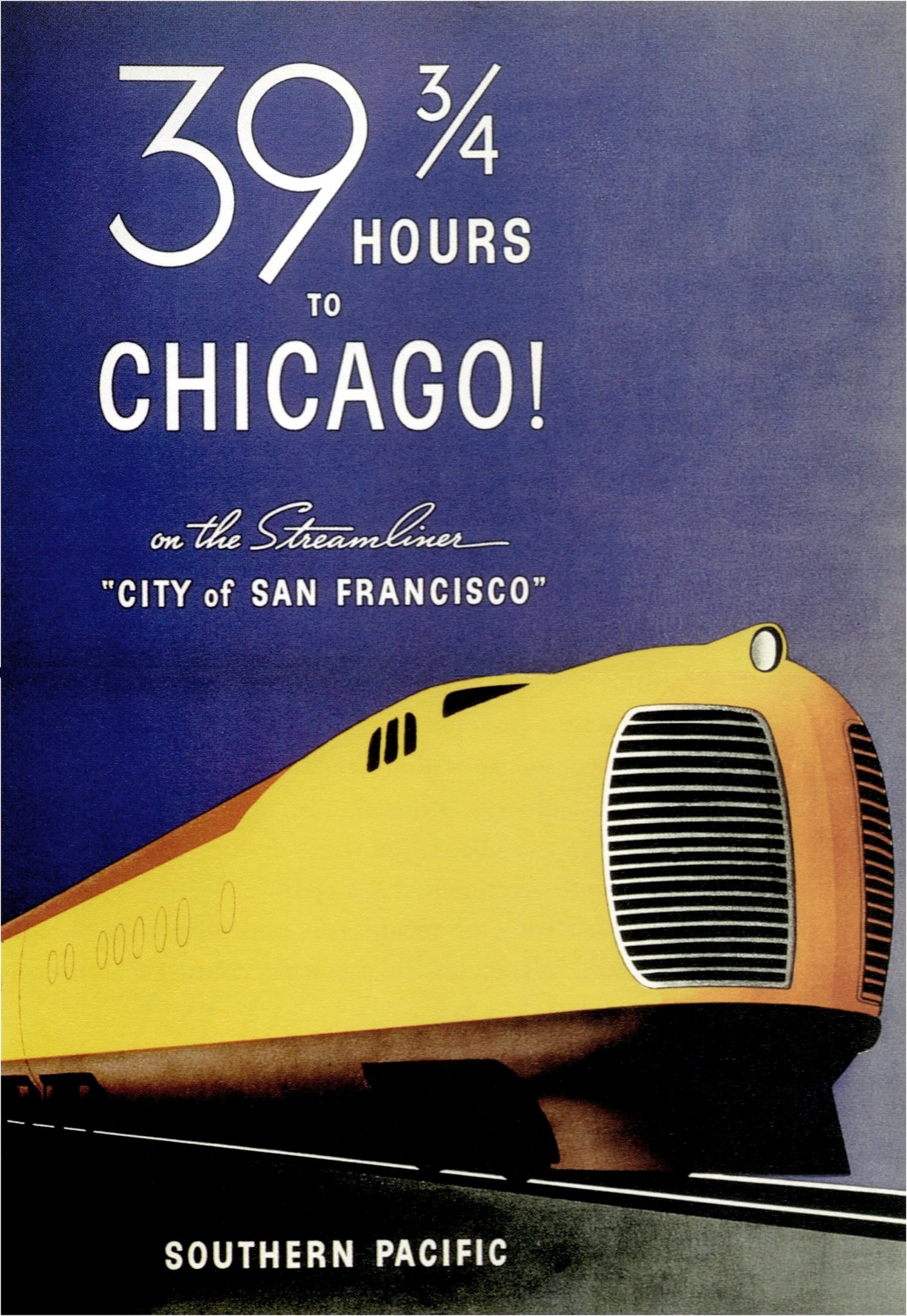 Southern Pacific promoting their first "City of San Francisco" Streamliner